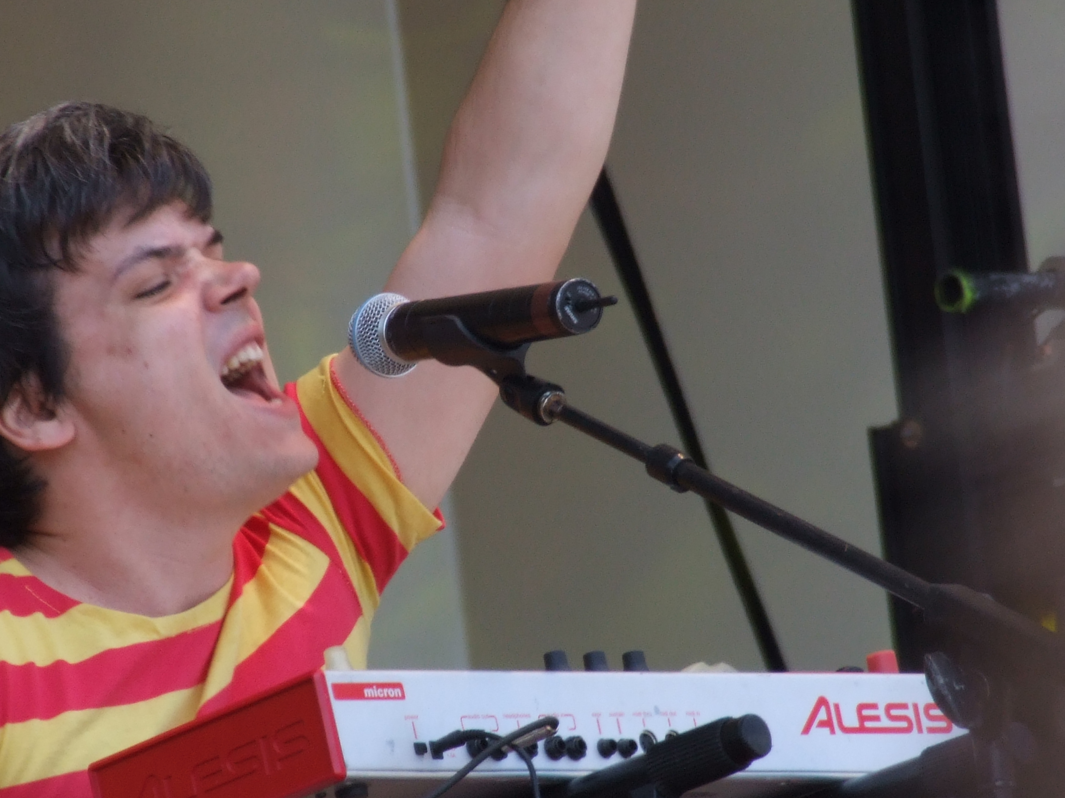 De Novo Dahl Lollapalooza Chicago Grant Park Saturday August 2'nd 2008